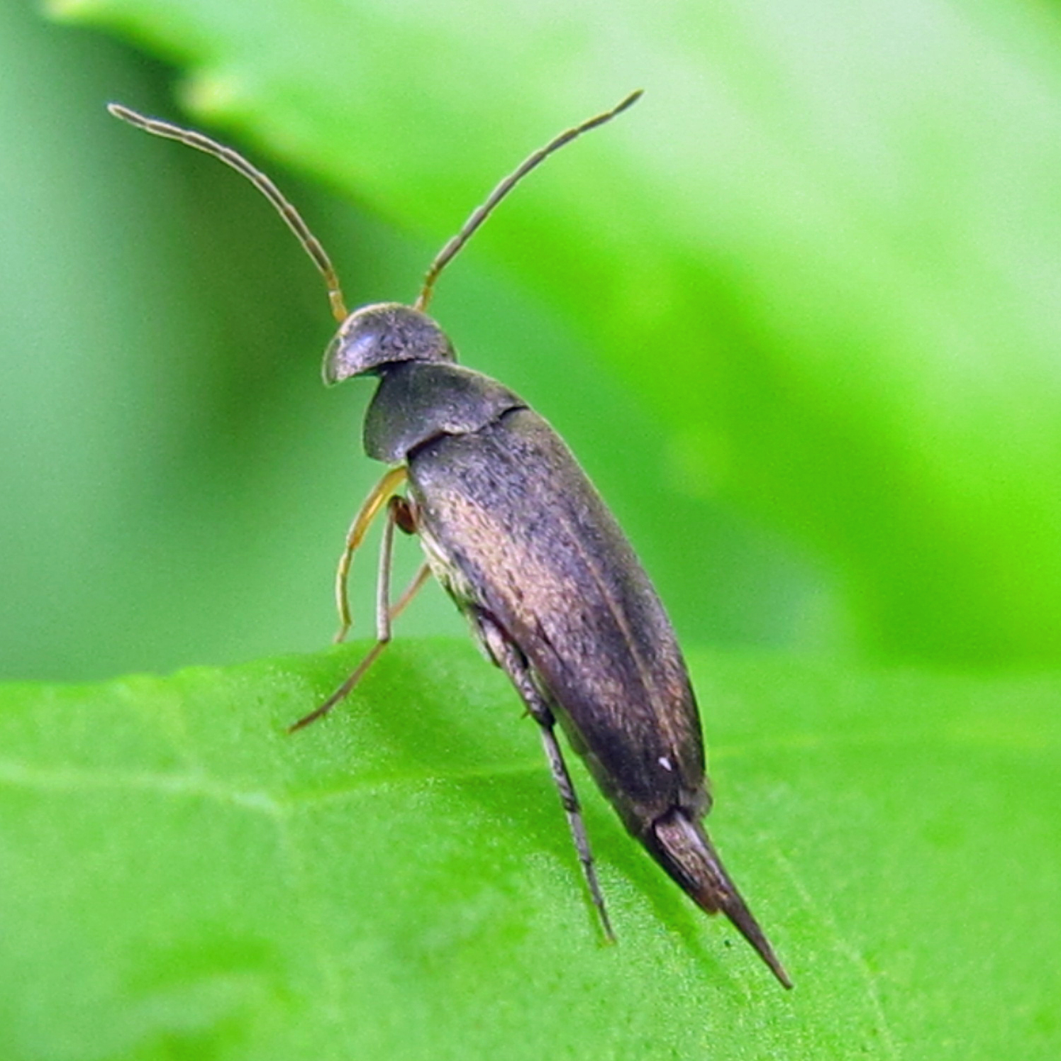 Tumbling Flower Beetle Mordellistena species, Wheatley, Ontario, Canada.